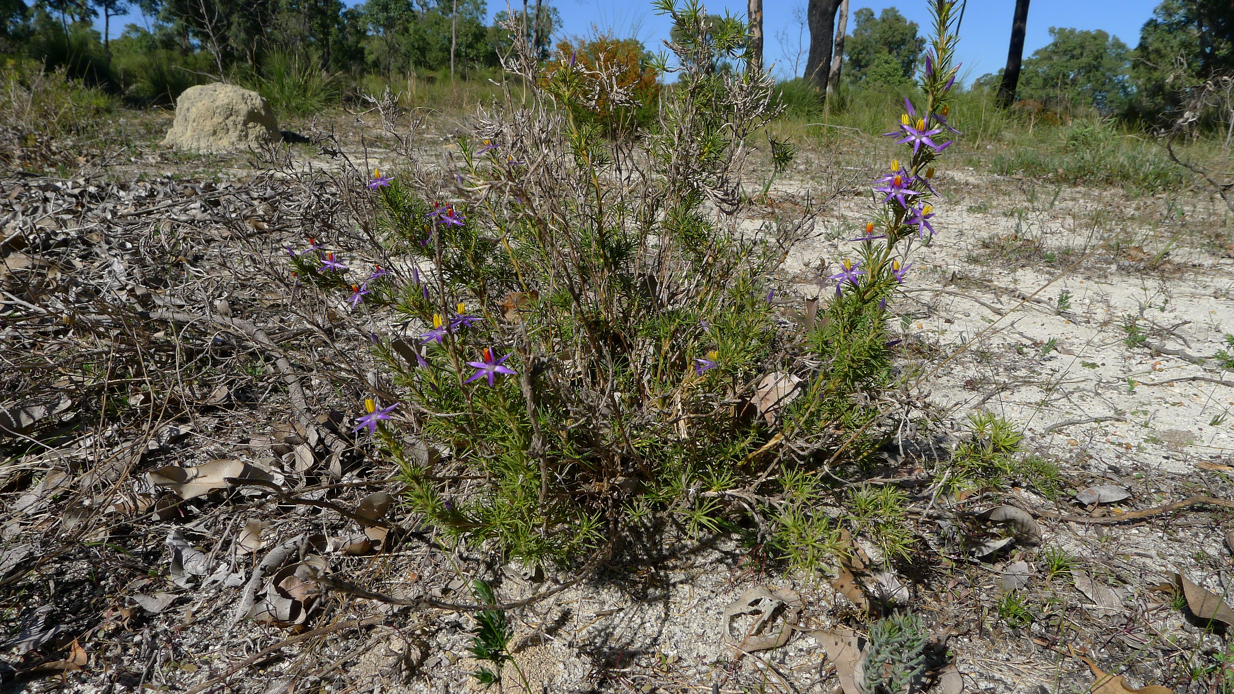 Tinsel Lily, Calectasia narragara. Growing on grey-white sand. Talbot Road Reserve, Swan View, Western Australia, May 2012.